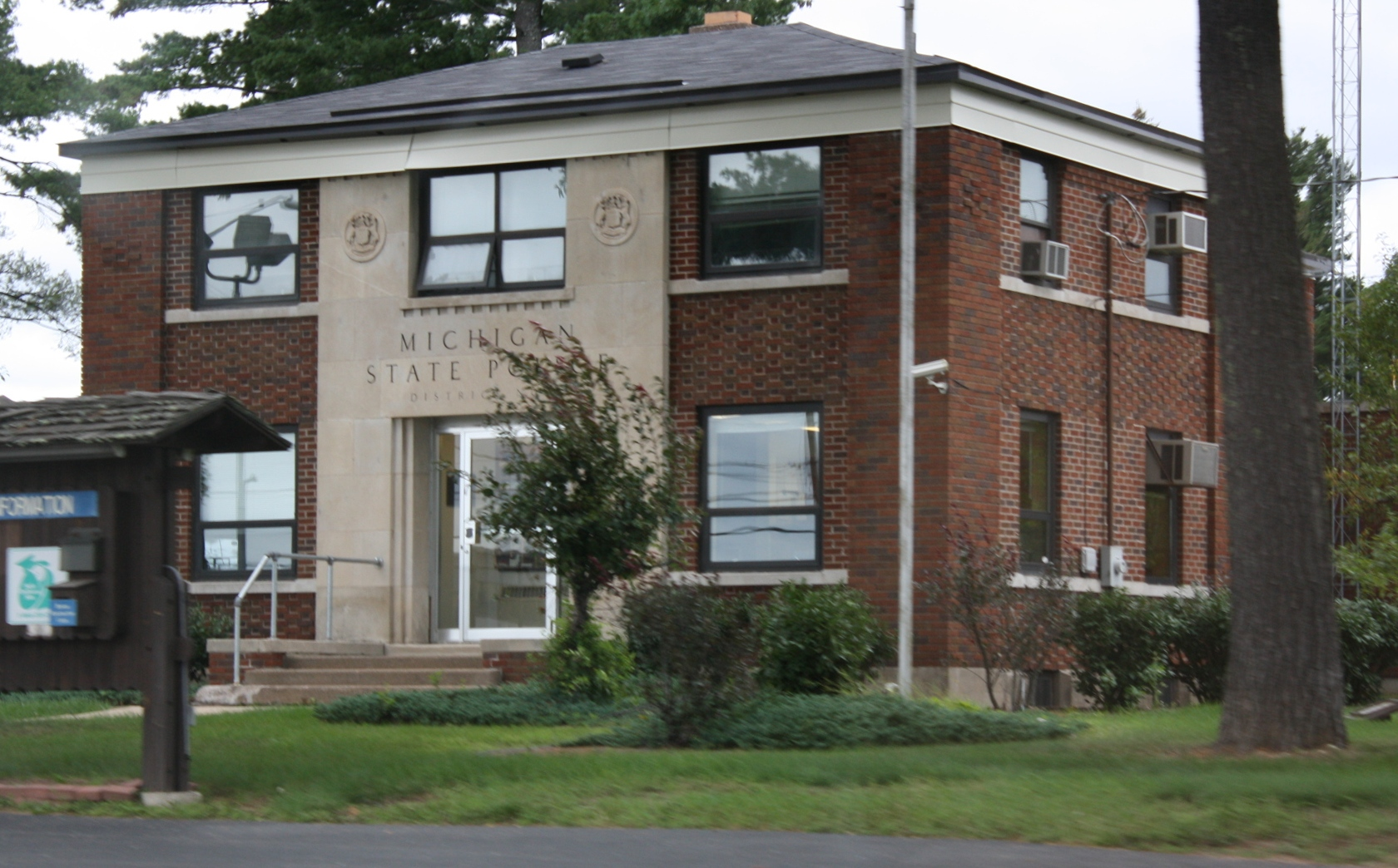 The Michigan State Police building in Iron Mountain, Michigan along U.S. Route 2 / U.S. Route 141.